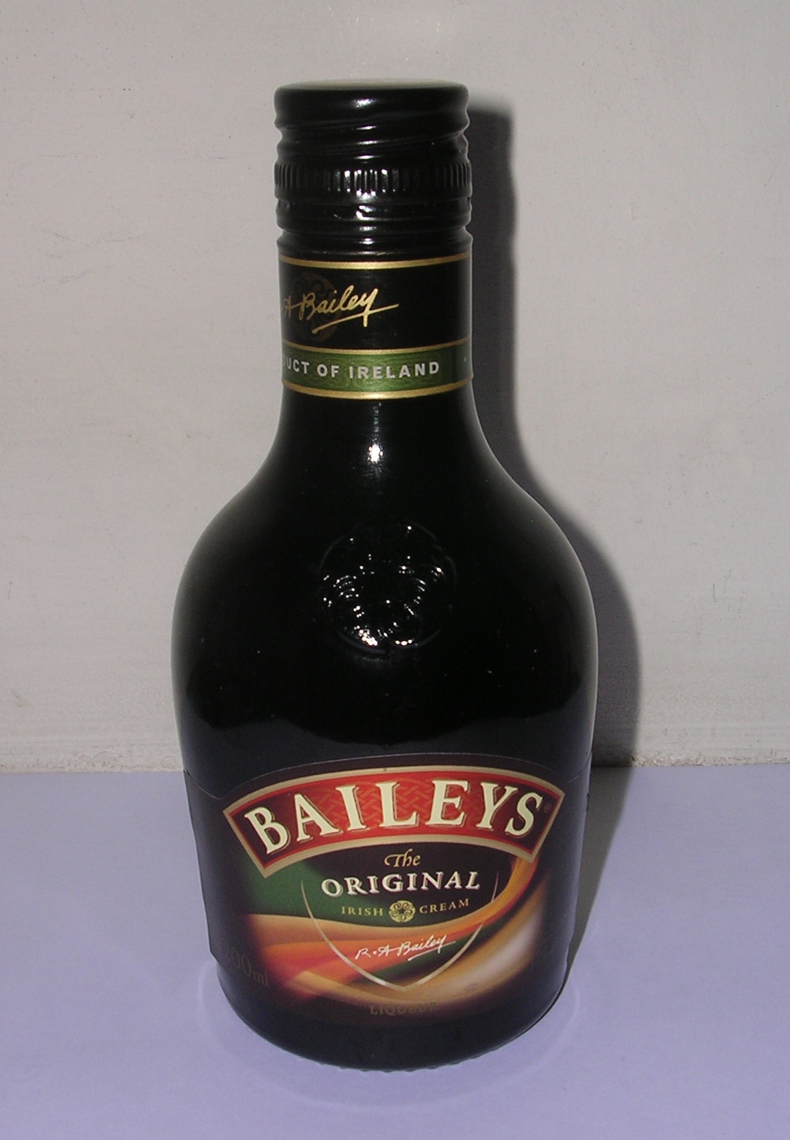 Picture taken by Adhish Bhargava Adhishb 08:41, 5 August 2007 (UTC)